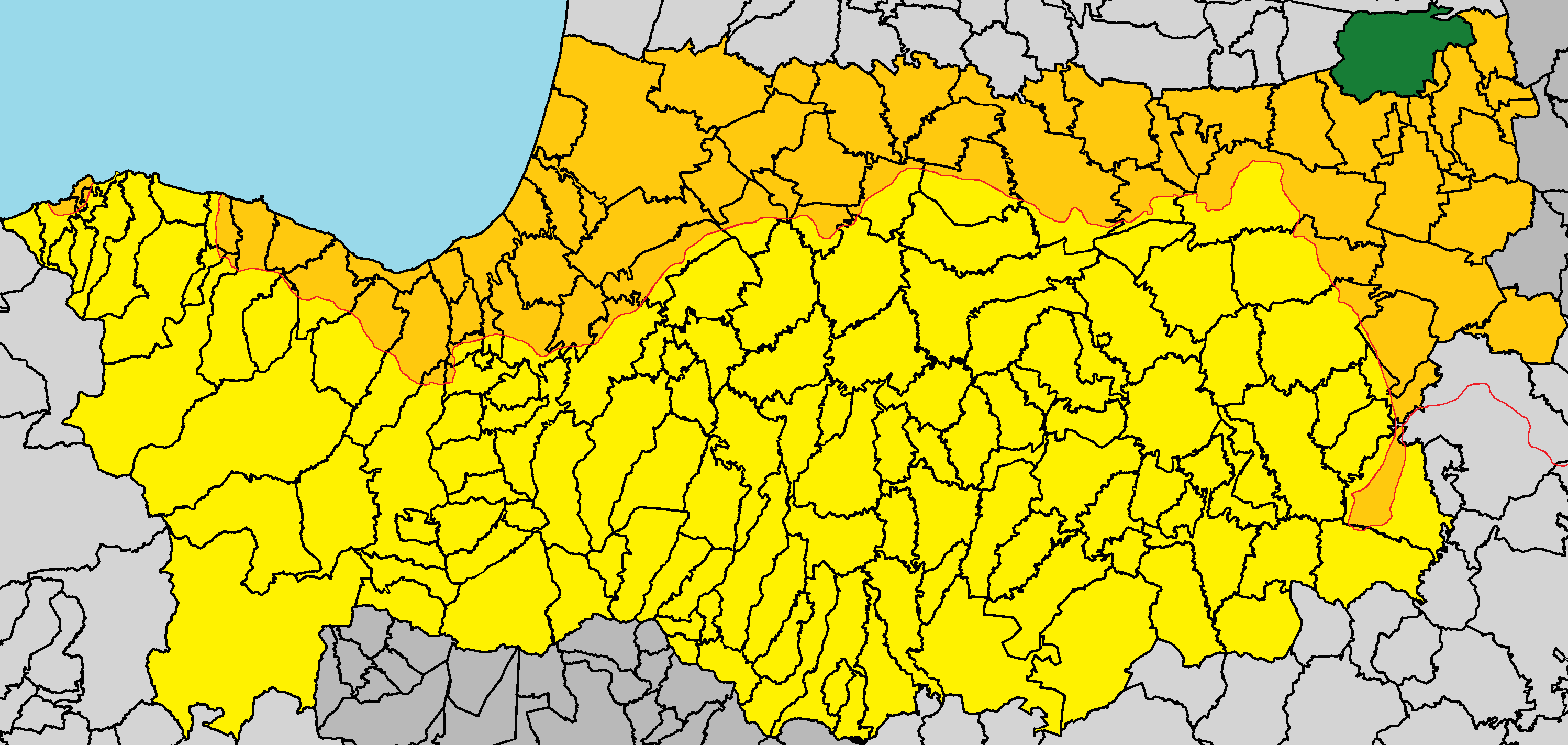 Kythrea in Nicosia District (de jure).